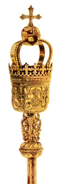 A royal mace, part of the Crown Jewels of the United Kingdom.